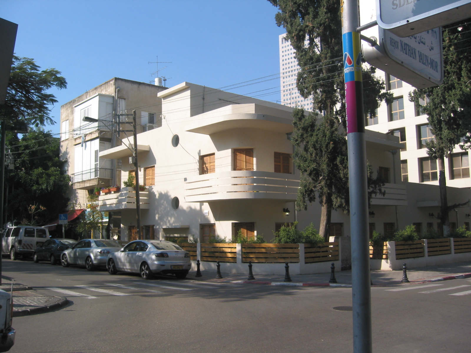 23 Yehudit Boulevard/15 Natan Yellin Mor Street, Tel Aviv